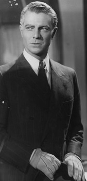 Jorge Rigaud-actor argentino